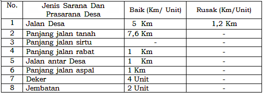 Prasarana Transportasi Darat Lewoloba